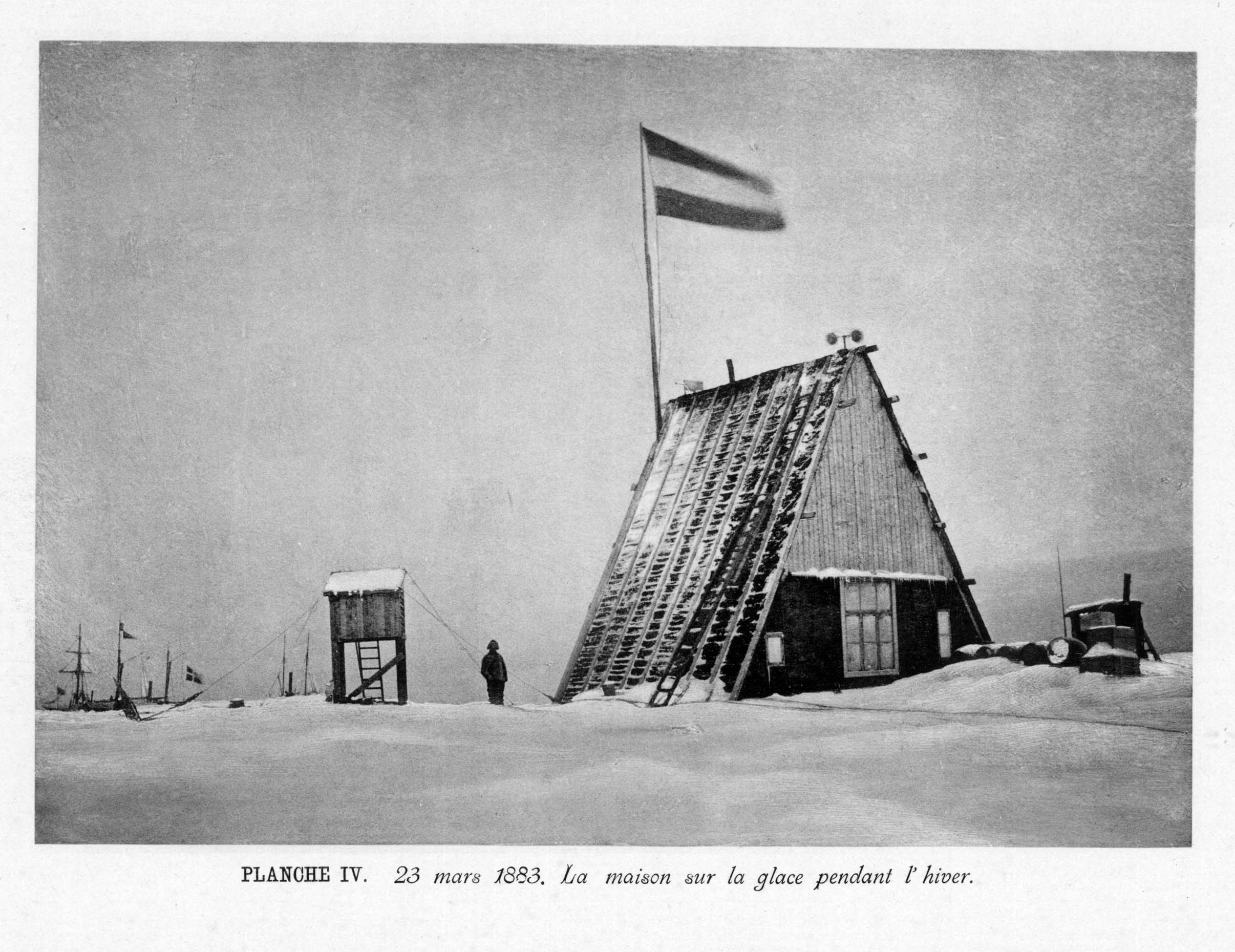 Plates/Figures from the publications of the first IPY (International Polar Year) 1887/88